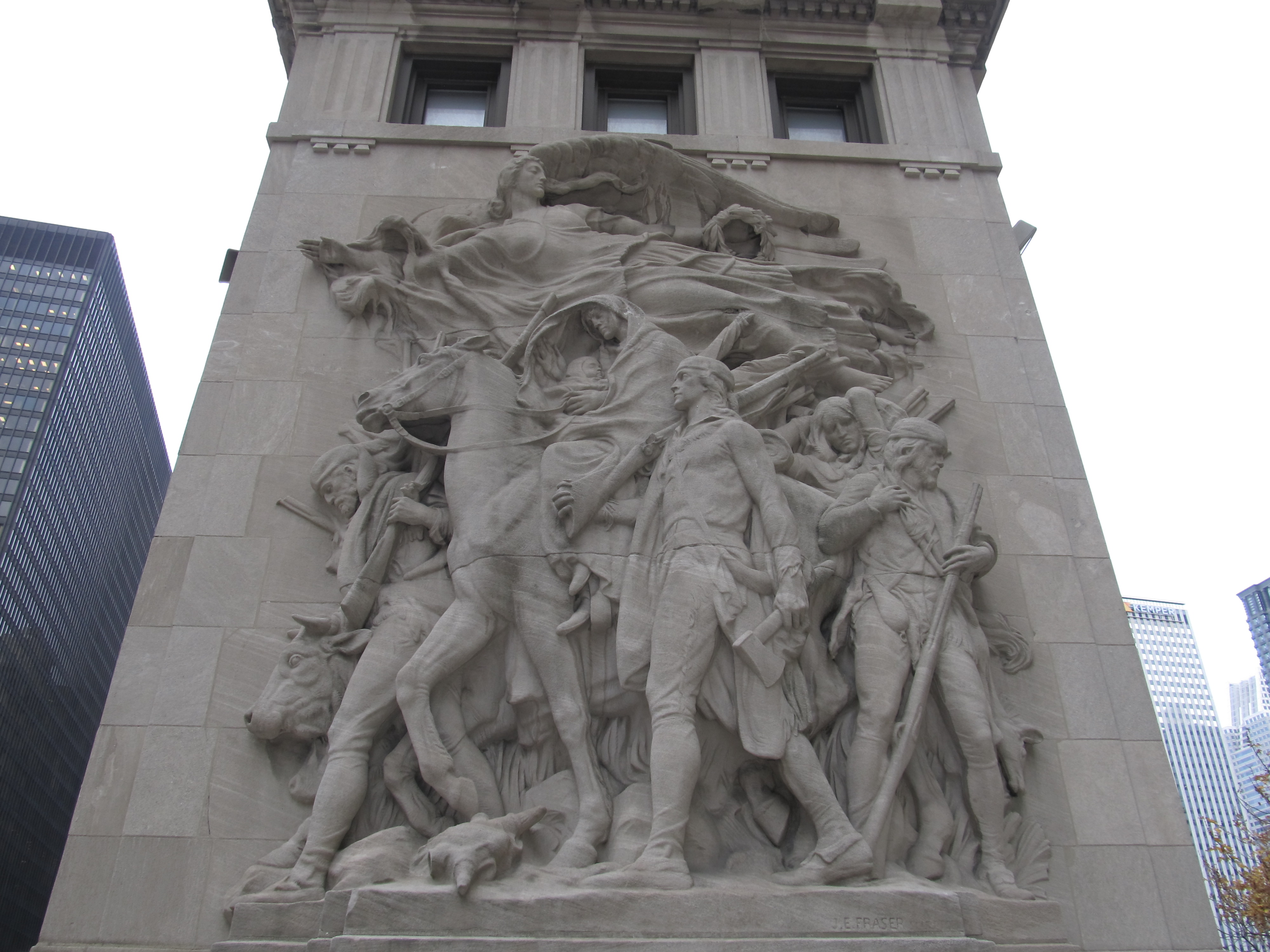 In 1928 sculptures depicting scenes from Chicago's history were added to the outward-facing walls of Michigan Avenue's four bridgehouses. The sculptures on the northern bridgehouses were commissioned by William Wrigley, Jr., and are by James Earle Fraser: The Discoverers depicts Louis Joliet, Jacques Marquette, René-Robert Cavelier, Sieur de La Salle and Henri de Tonti; The Pioneers depicts John Kinzie leading a group through the wilderness. The sculptures on the southern bridgehouses were commissioned by the B. F. Ferguson Monument Fund, and are by Henry Hering: Defense depicts Ensign George Ronan in a scene from the 1812 Battle of Fort Dearborn; Regeneration depicts workers rebuilding Chicago after the Great Chicago Fire of 1871. The bridge is also bedecked with 28 flagpoles, usually flying the flags of the United States, Illinois and Chicago. On special occasions other banners may be displayed.